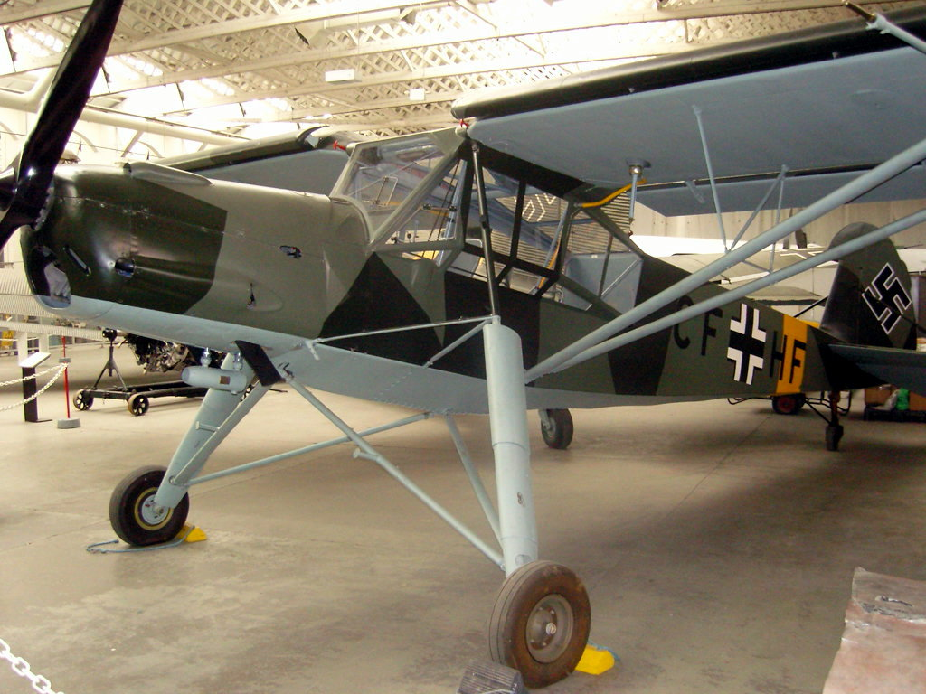 Photographed at the Imperrial War Museum, Duxford, Cambridgeshire. Photo ref; SNC10139